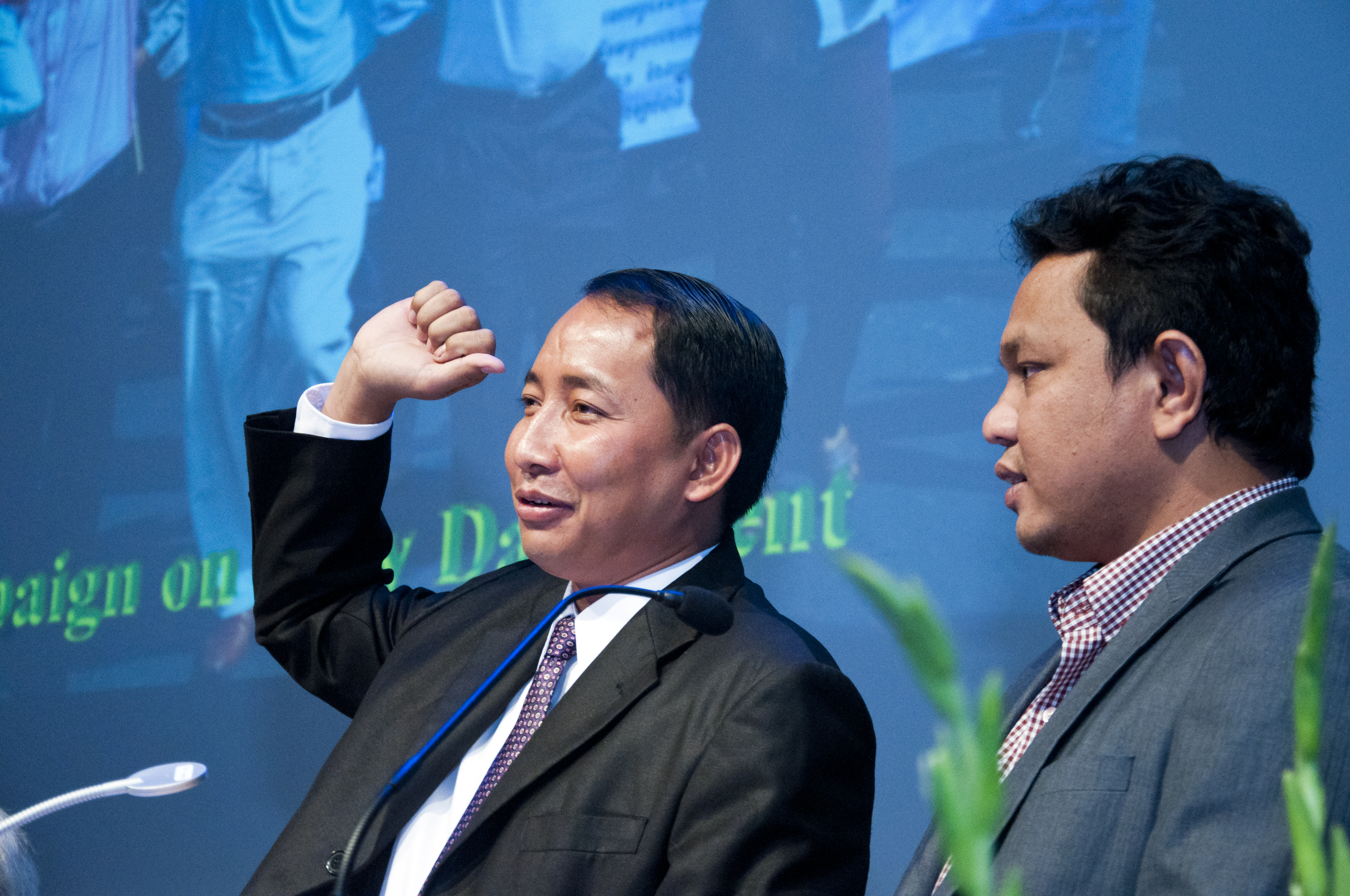 Ath Thorn (president) and Athit Kong (general secretary) at the Cambodian garment worker union C.CAWDU